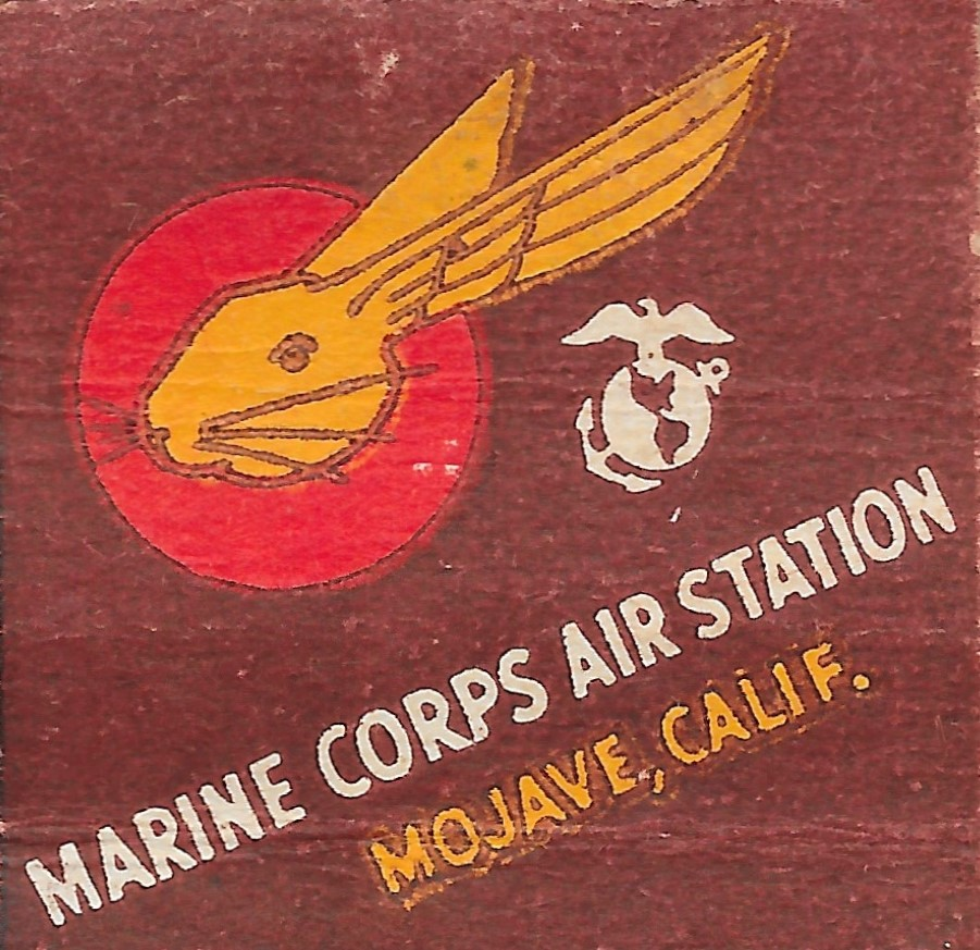 MCS Mojave insignia taken from a WWII matchbook cover.